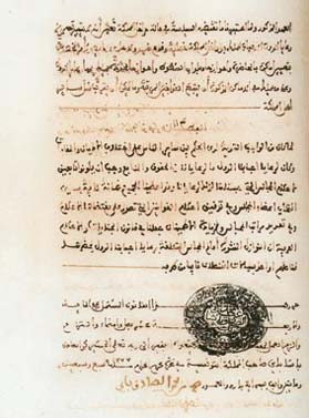 Last_page_of_the_Tunisian_Constitution_of_1861